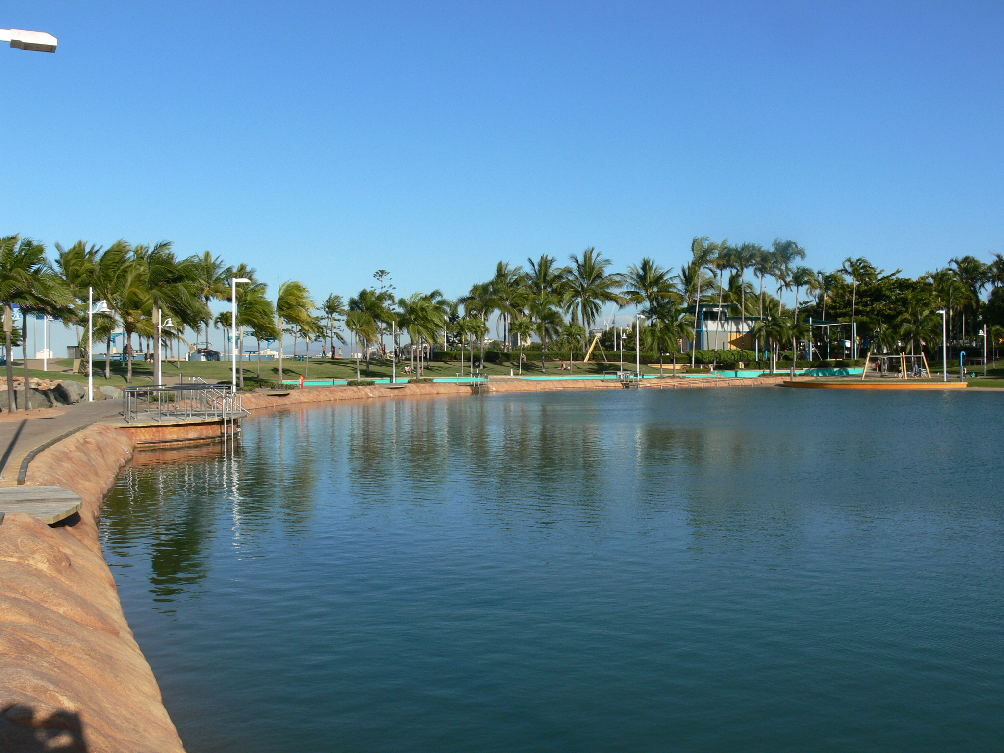 The Rock Pool in the Strand.